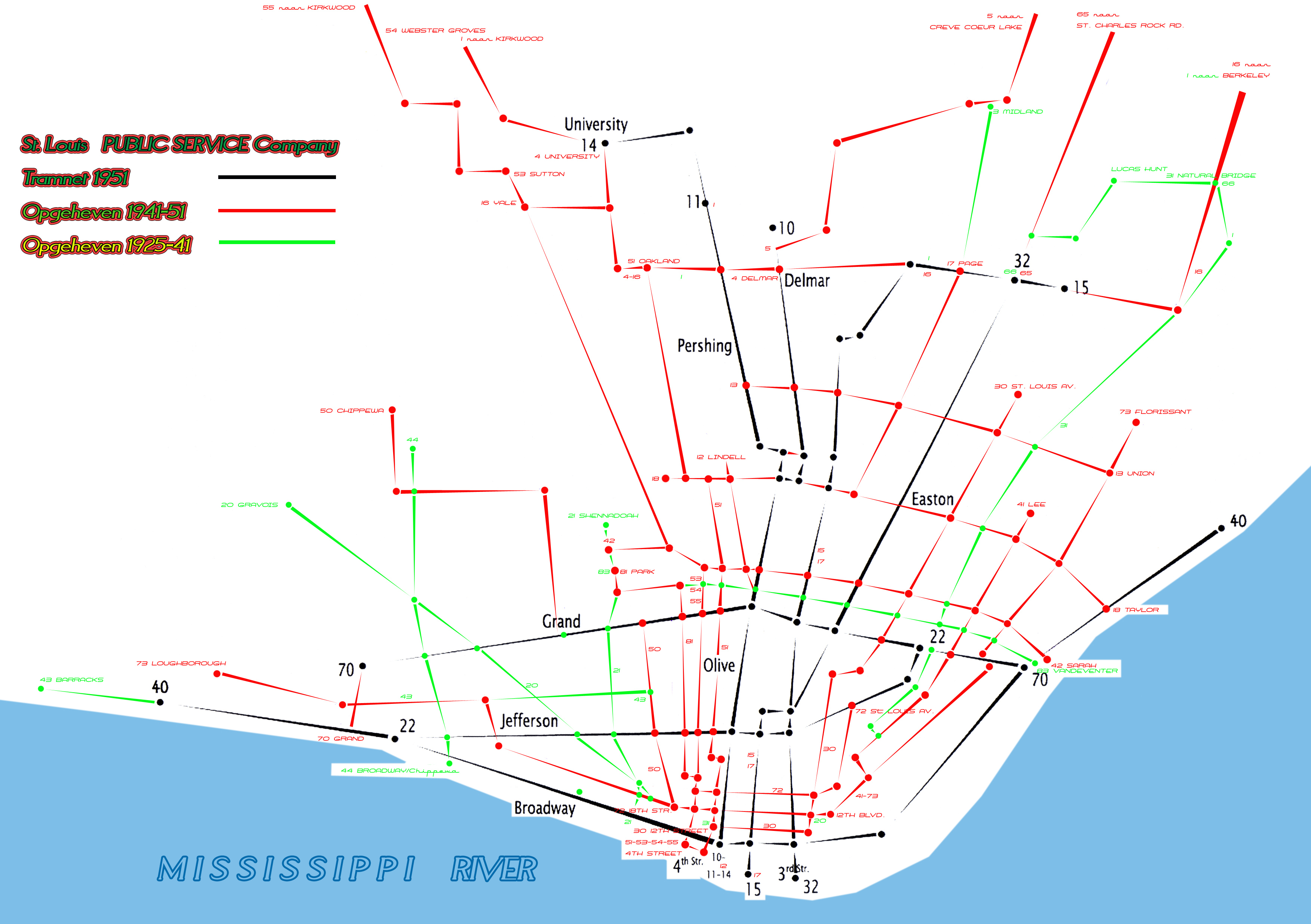 A map of the streetcar network, made by me in Photoshop.